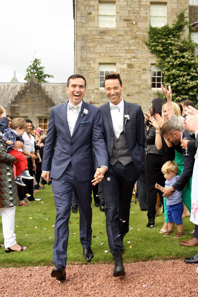 Wedding of Alan Gemmell and Damien Stirk, July 18 2015, Blair House, Ayrshire